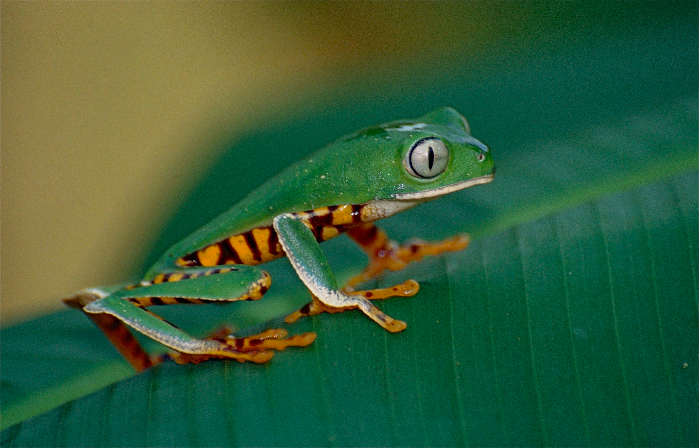 Saül, Guyane, FRANCE Scanned Slide from 2000